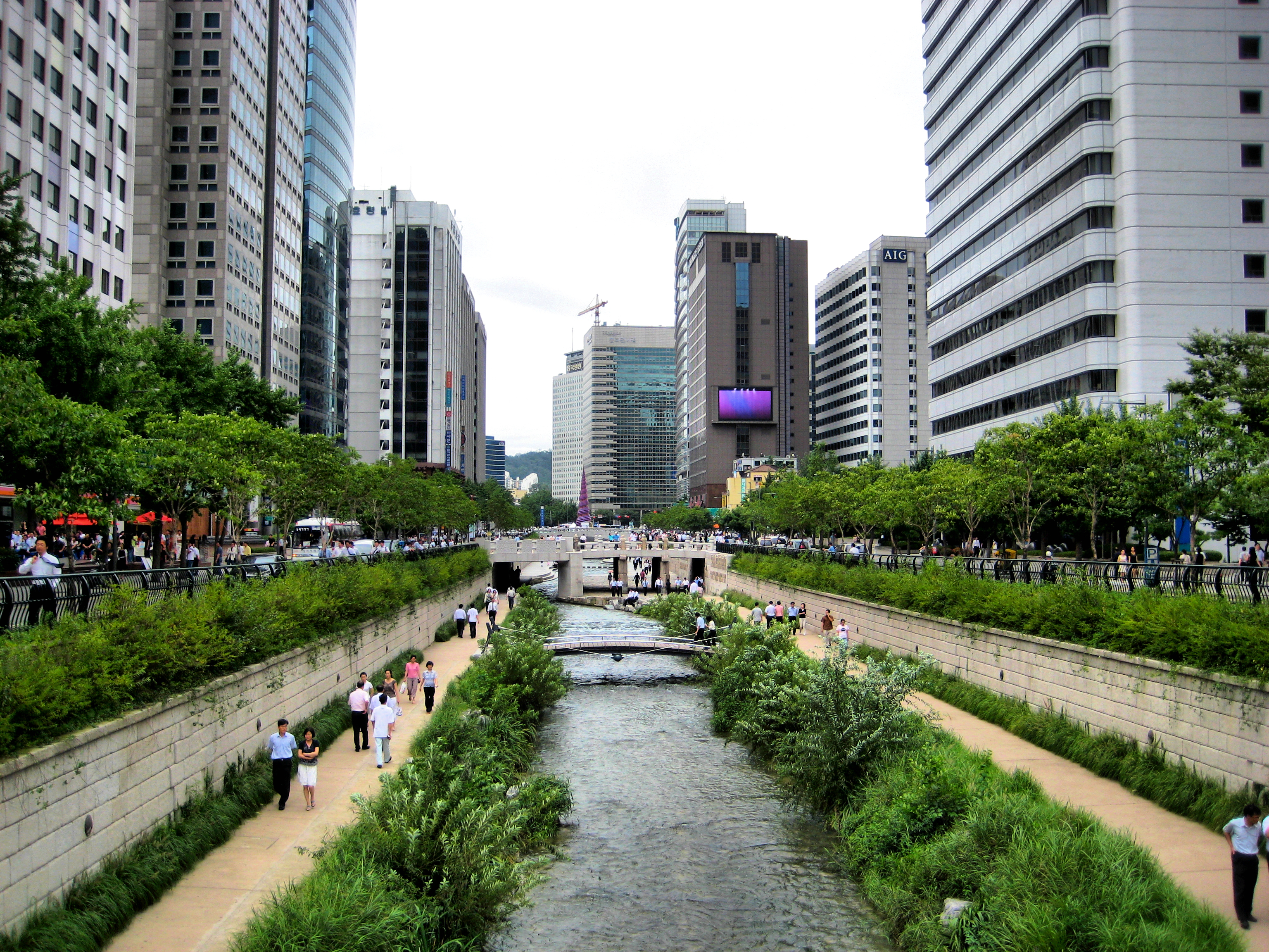 Cheonggyecheon stream